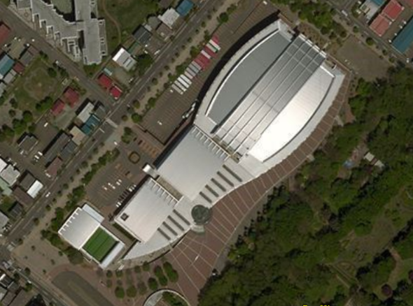 Hokkai Kitayell